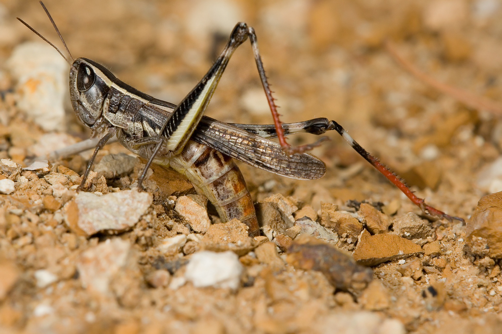 Common Macrotona (Macrotona australis) laying eggs Camera data Camera Canon EOS 400D Lens Tamron EF 180mm f3.5 1:1 Macro Flash Softbox Focal length 180 mm Aperture f/11 Exposure time 1/800 s Sensivity ISO 400